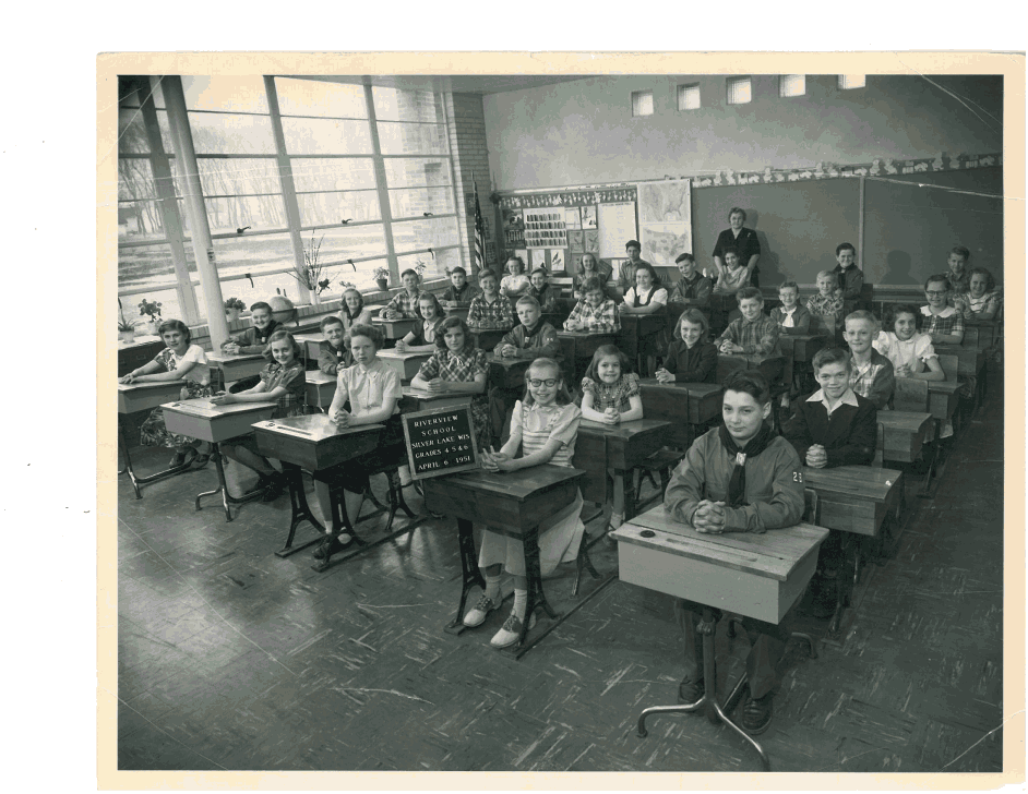 Riverview School's shared fifth and sixth grade classroom. Photo taken April 9, 1951